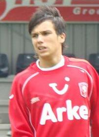 Image of the FC Twente-player Dario Vujičević